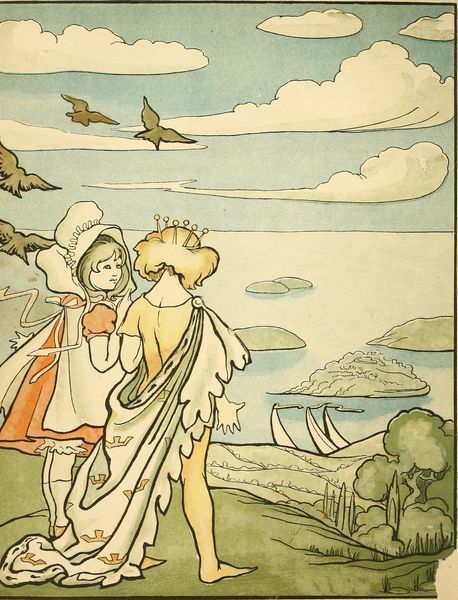 this is a picture to go with the fairy tale "The Magician's Tea-Party"